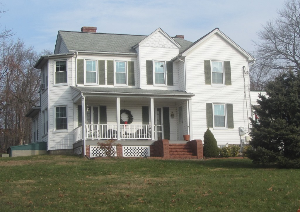 HO-568 Frank Shipley House